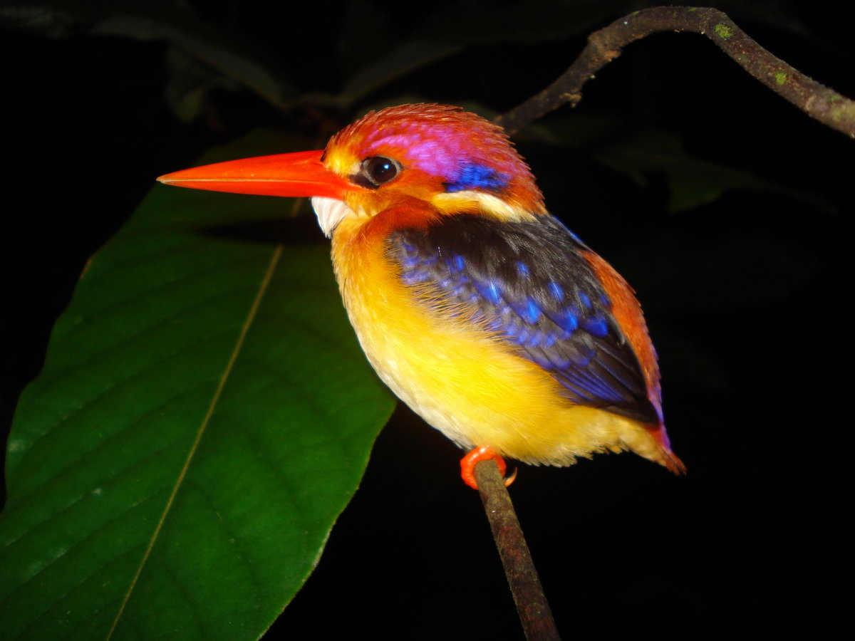 Black-backed Kingfisher from Kho Hong Hill, Hatyai, Songkhla Province, Southern Thailand.